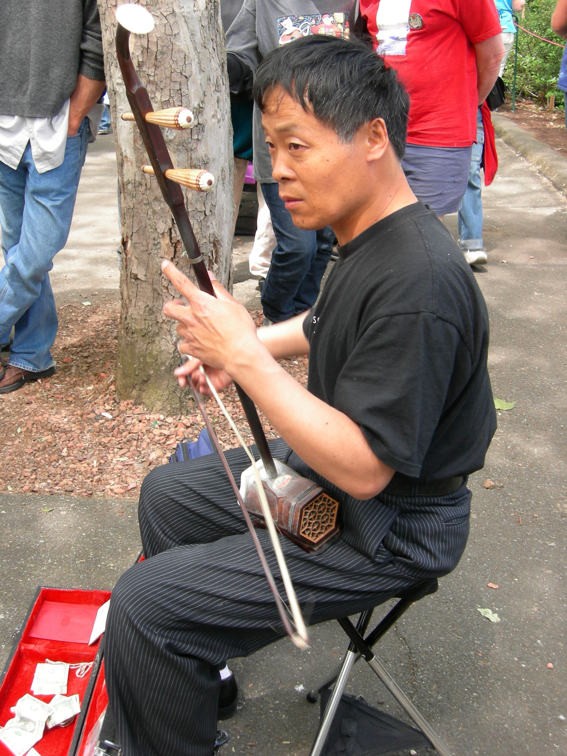 Musician playing erhu (Chinese stringed instrument), Northwest Folklife Festival, Seattle Center, 2007.